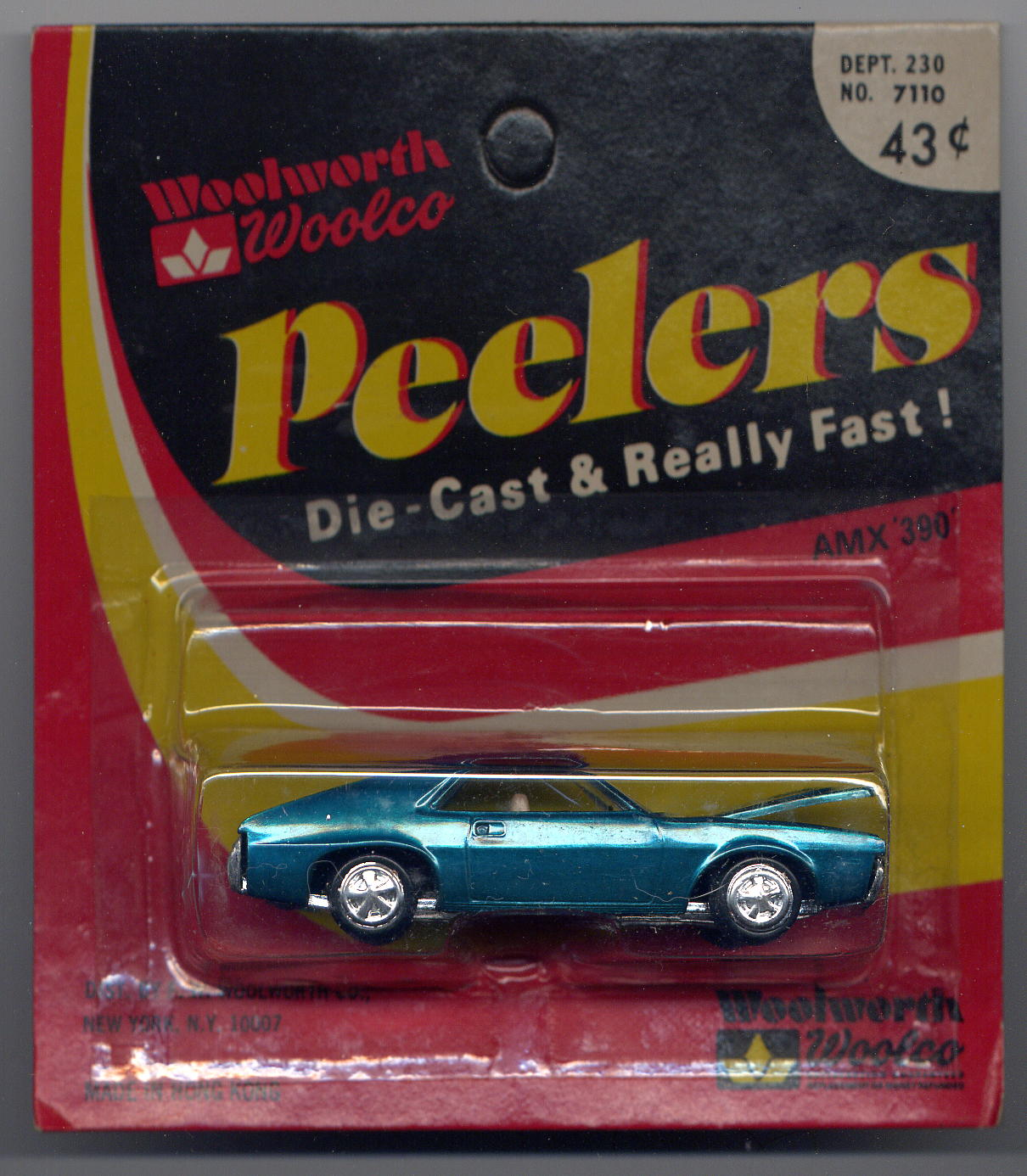 playart peelers diecast blister bubble card 1